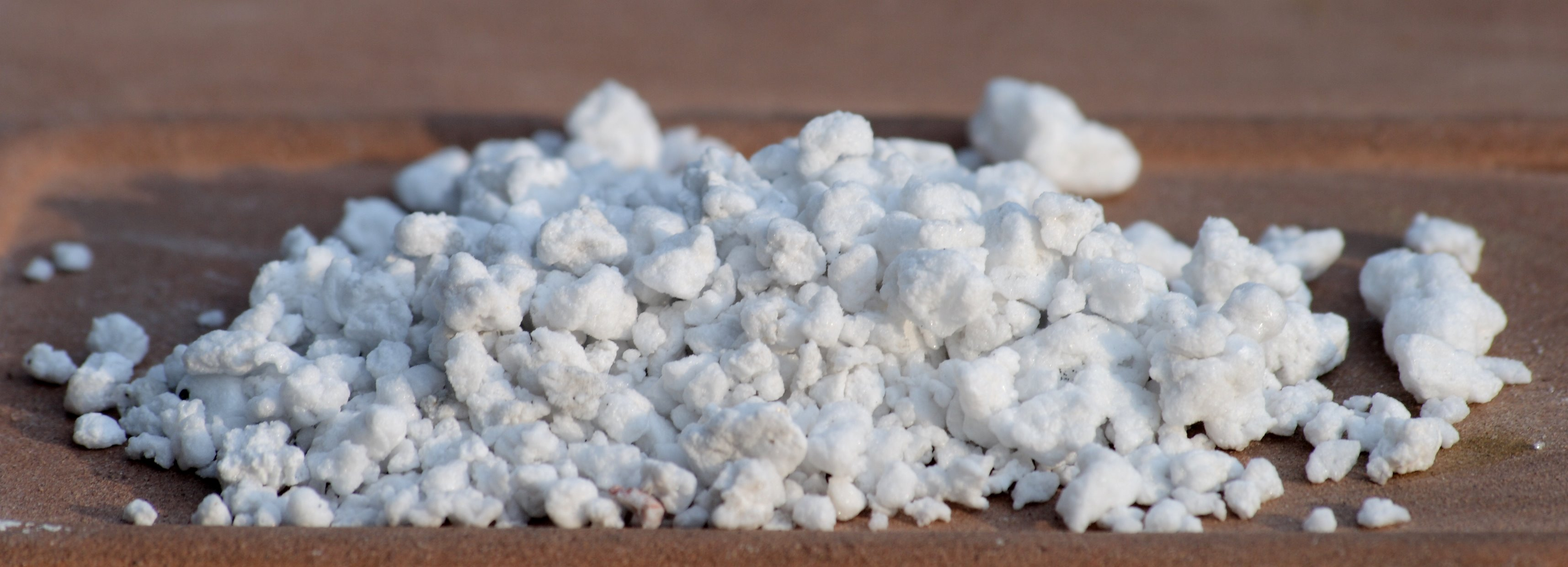 Perlite, a common soil amendment, from a bag of Schultz Horticultural Perlite